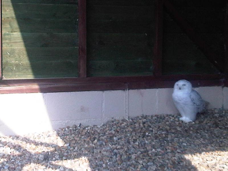 Snowy Owl (Bubo scandiacus) at Owl and Monkey Haven in Isle of Wight, England.